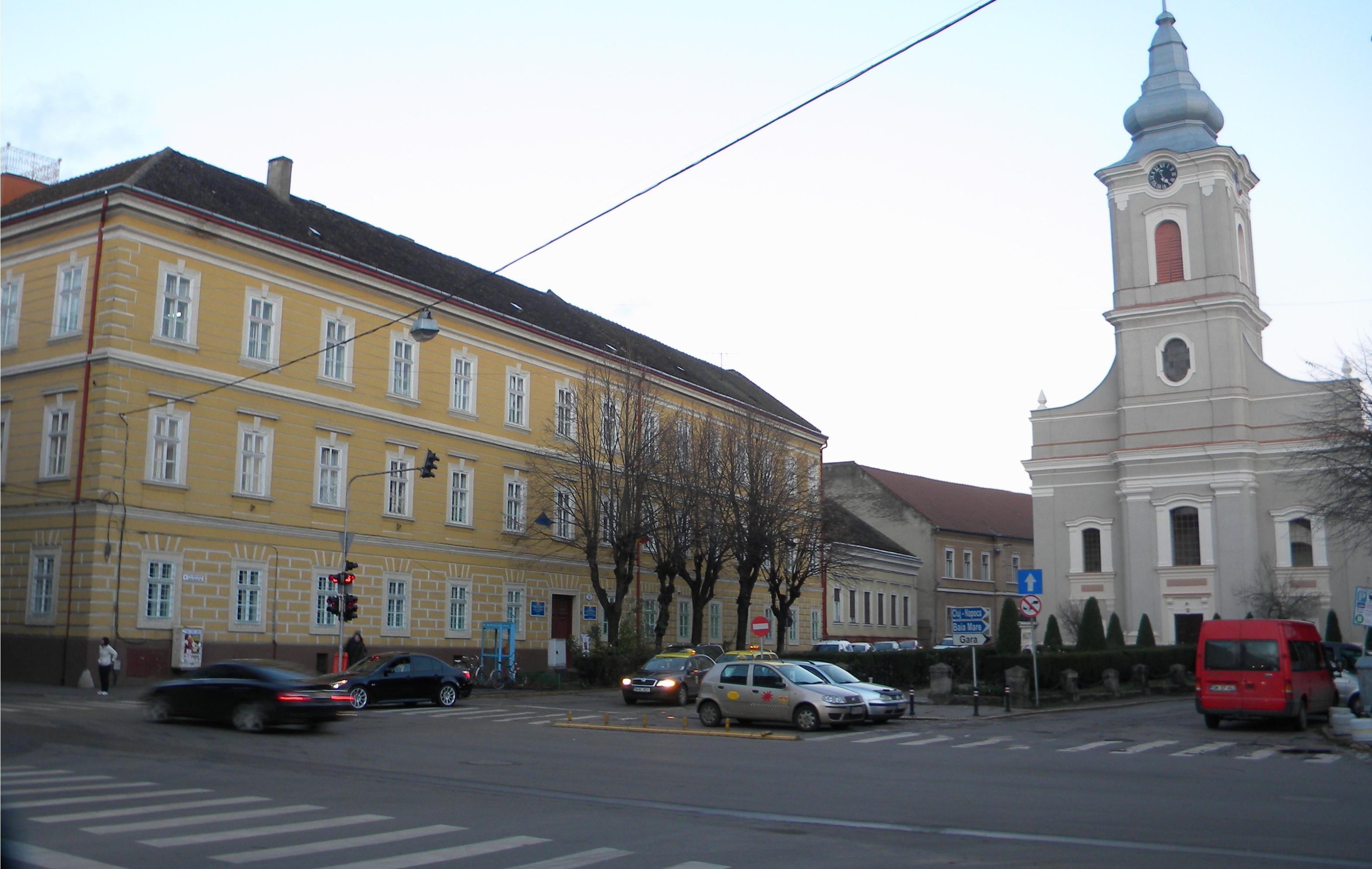 The Reformed College and the Chains church, Jean Calvin Square, Satu Mare/Szatmárnémeti/Sathmar